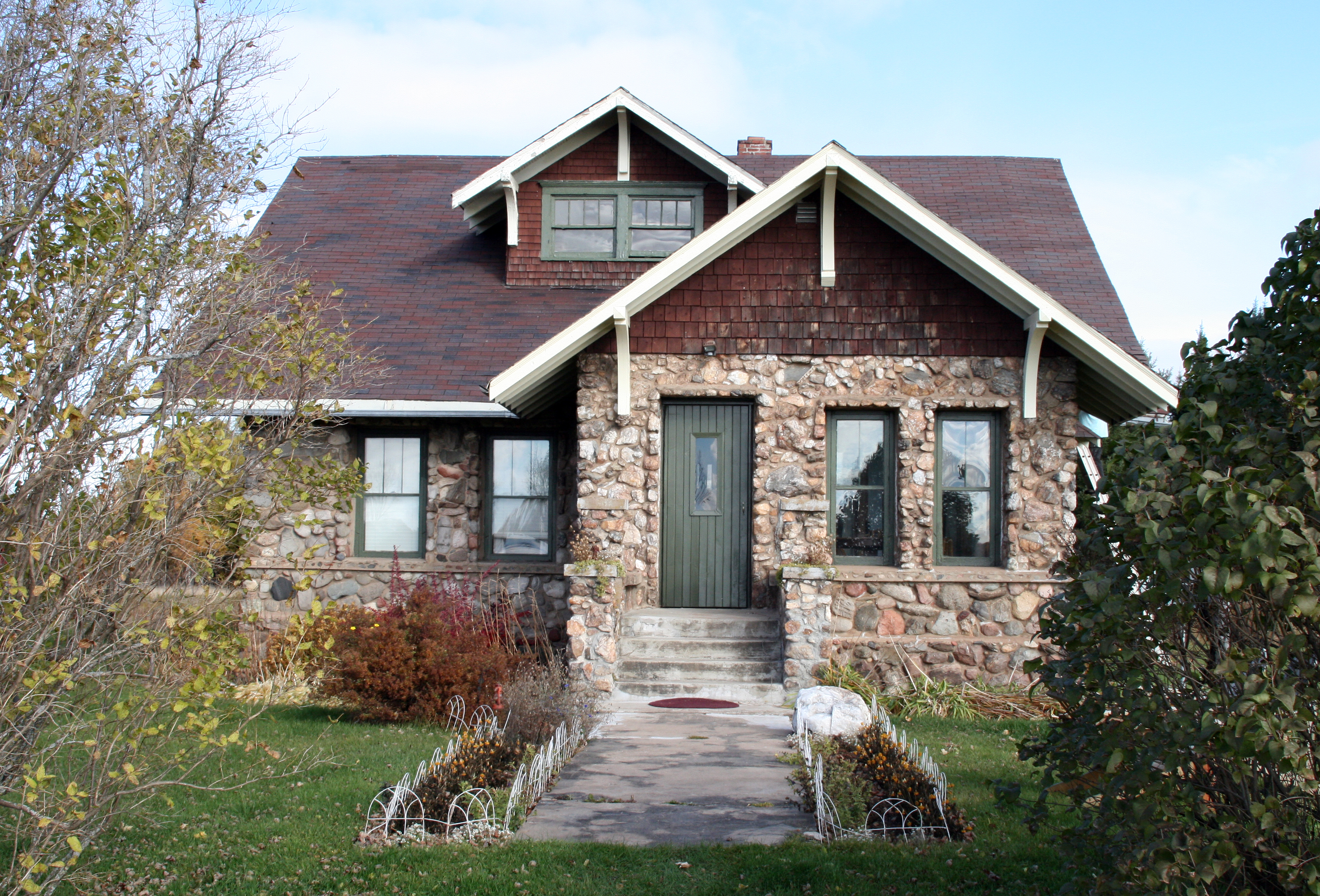 Arthyde Stone House, County Road 27 McGrath vicinity